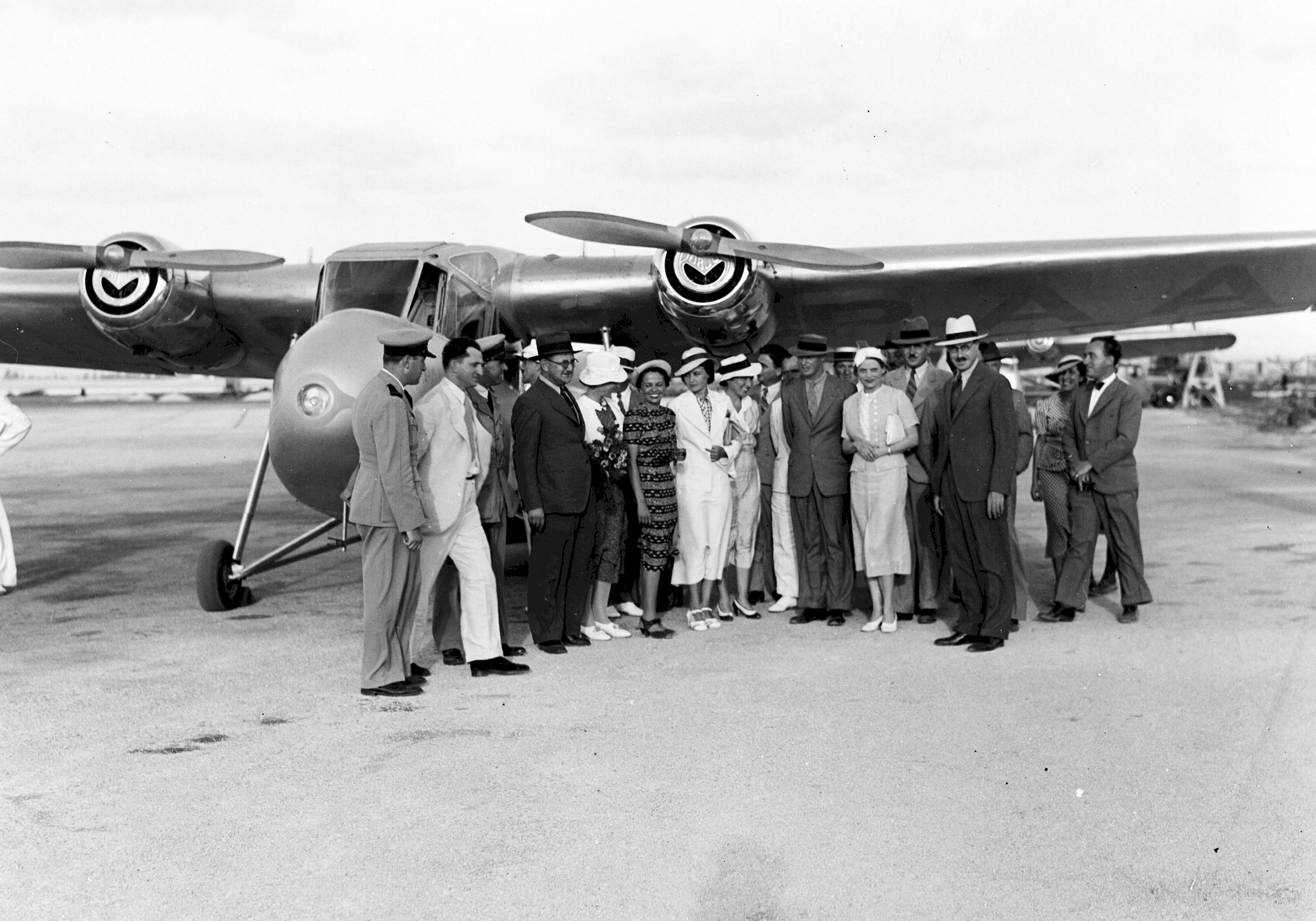 A group photo with the Tel Aviv Mayor Rokach and his wife, before the inauguration of flight service Tel-Aviv Haifa by the Palestine Airways Ltd.